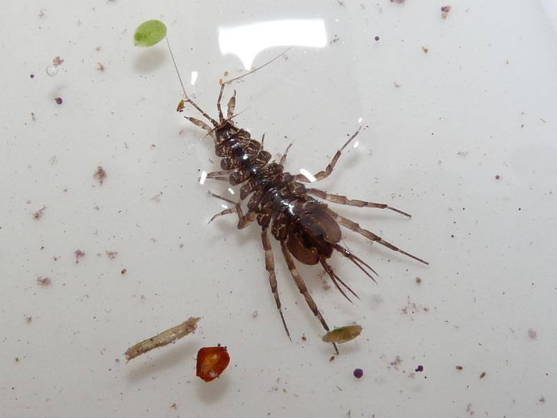 Asellus aquaticus, male. Location: The Netherlands - Middelburg - Veerse Poort e.o.